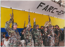 FOR IMMEDIATE RELEASE FARC Commanders during the Caguan peace process March 22, 2006 DEA Public Affairs 202-307-7977